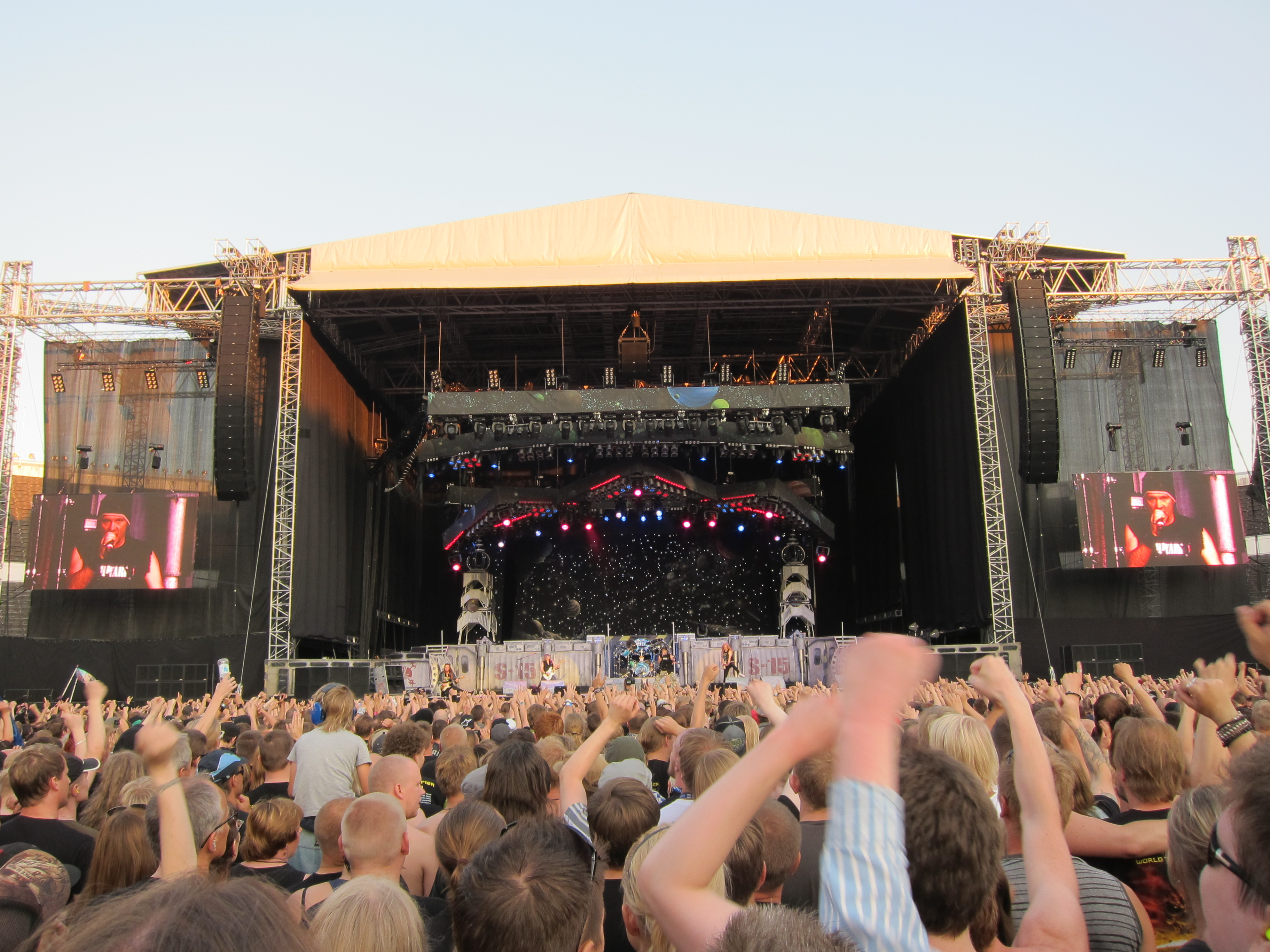 Iron Maiden performing at the Helsinki Olympic Stadium in Helsinki, Finland.